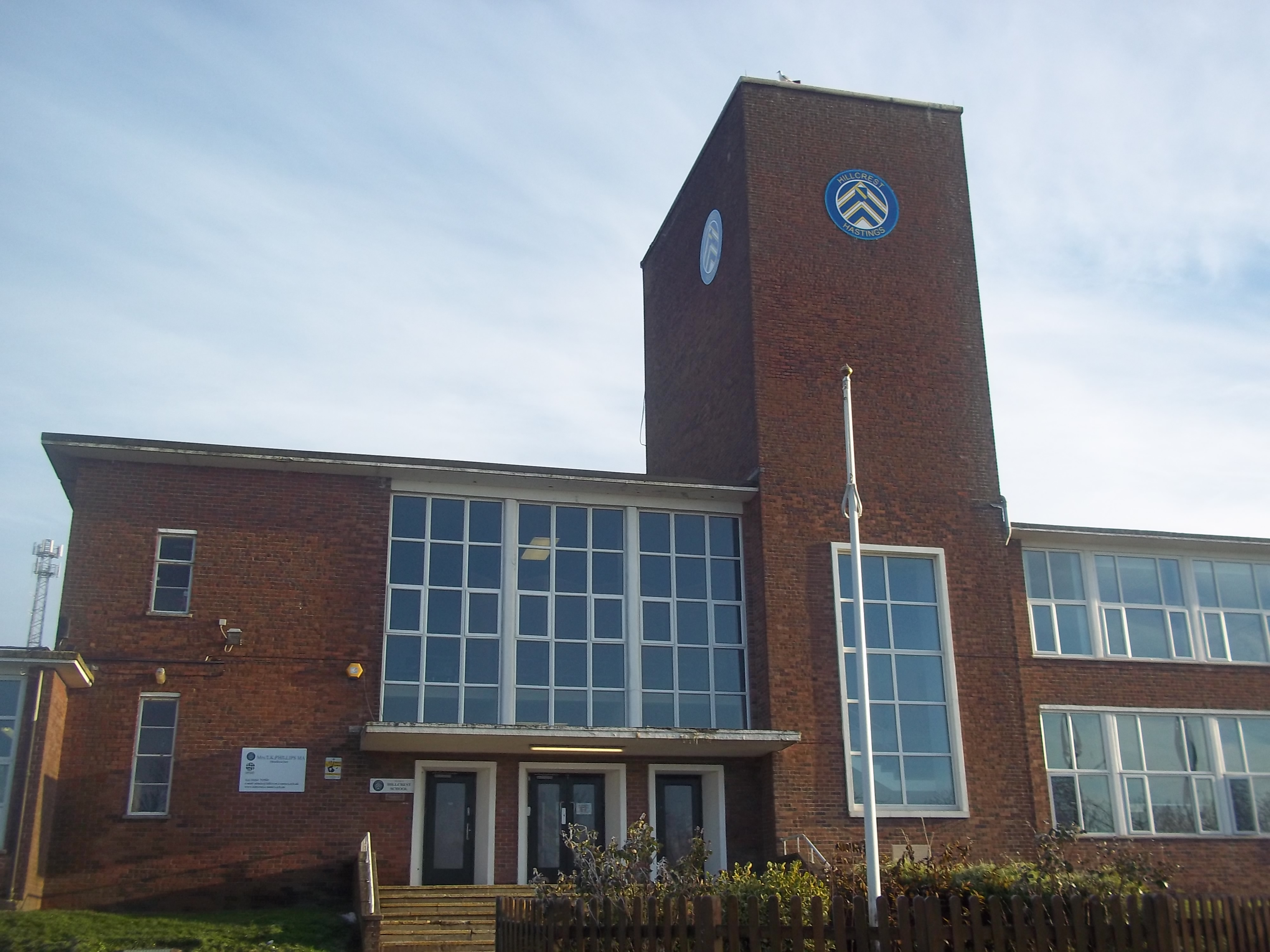 The staff/visitor entrance of Hillcrest School (now the Hastings Academy) taken in November 2010.